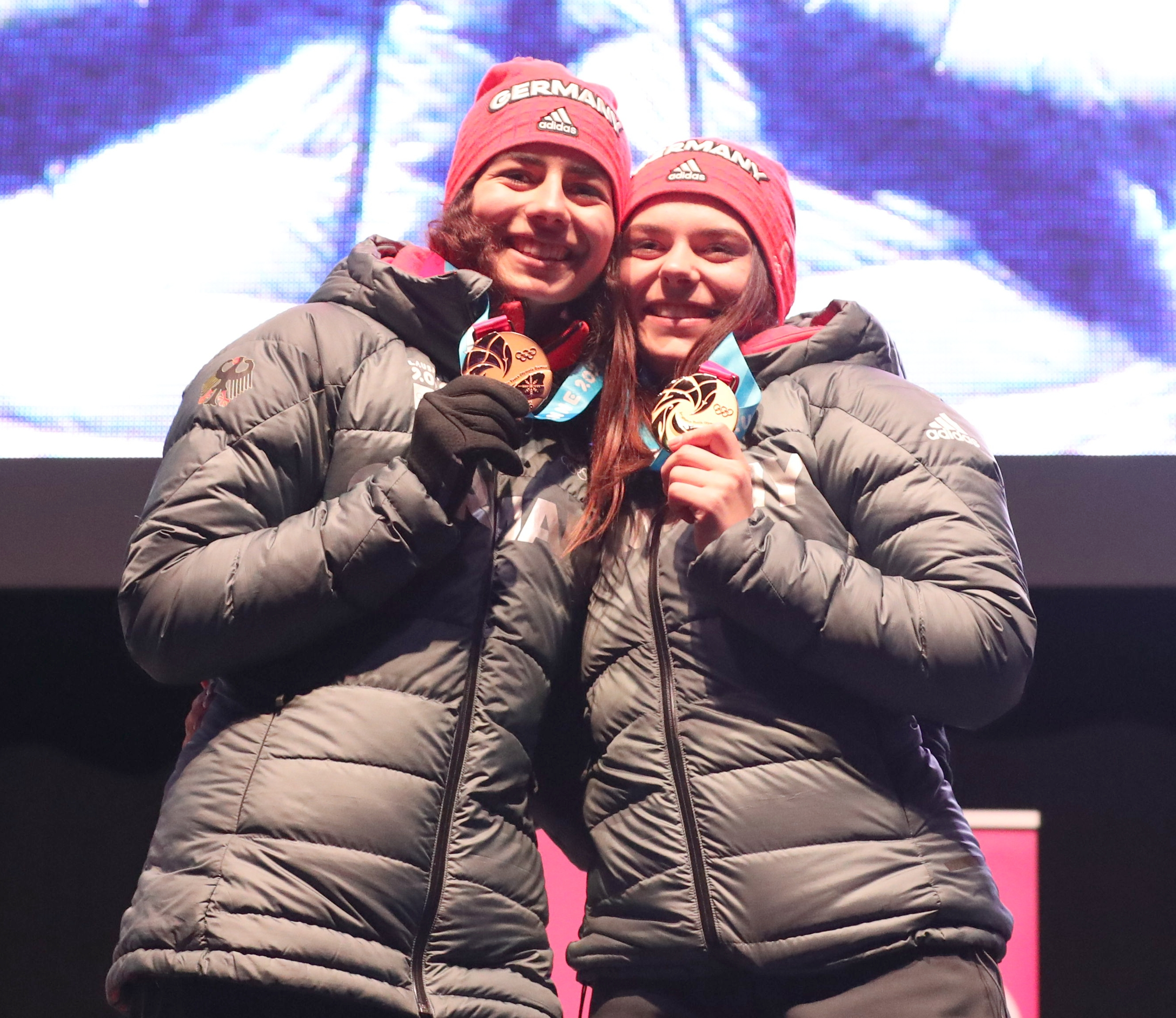 Medal Ceremony Day 9 in St. Moritz, 2020 Winter Youth Olympics in Lausanne